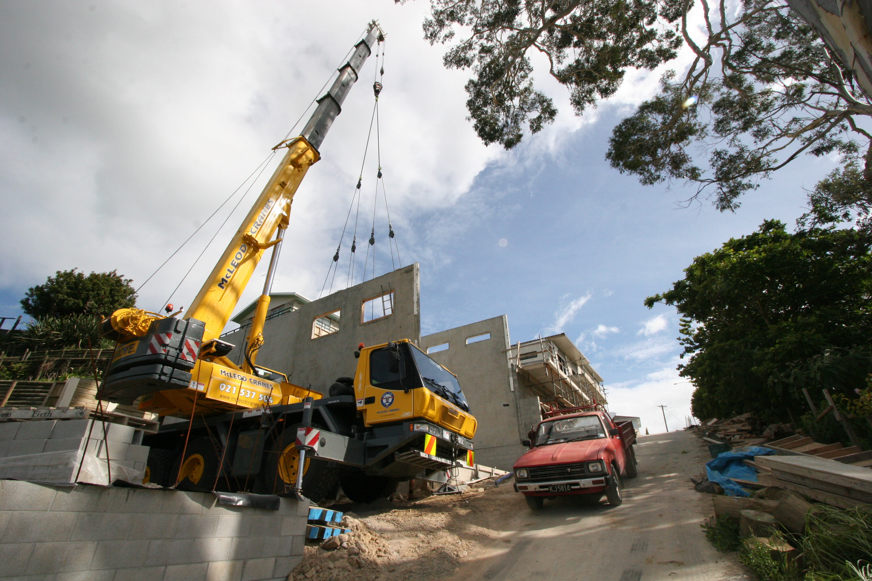 GMK3050 All Terrain Crane working in Greerton, New Zealand. The crane is placing a precast concrete panel into position.